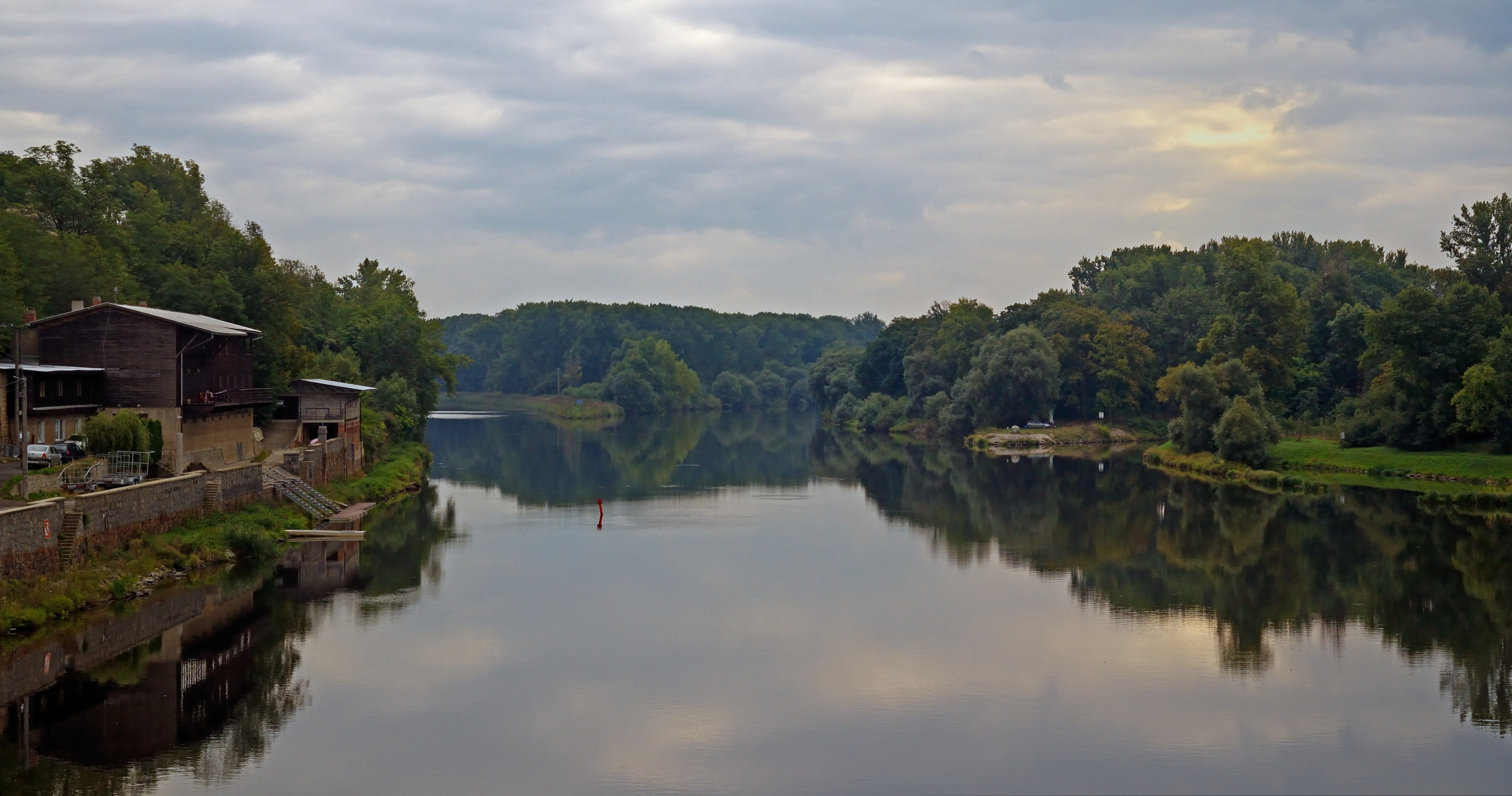 The confluence of the rivers Vltava and Labe near Melnik castle, Czech Republic